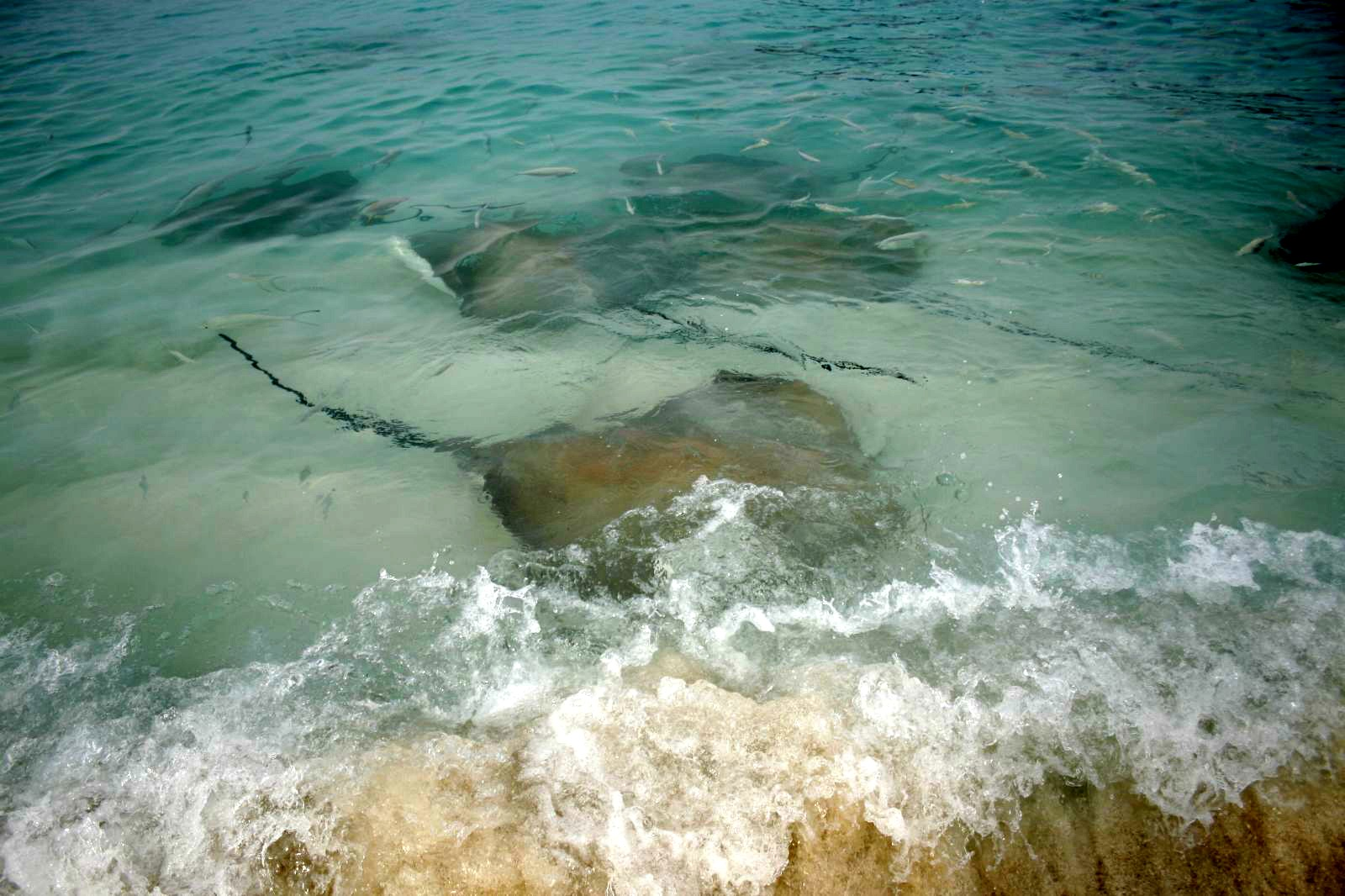 Baa Atoll. Reethi Beach Resort (RBR). Ray / Rochen